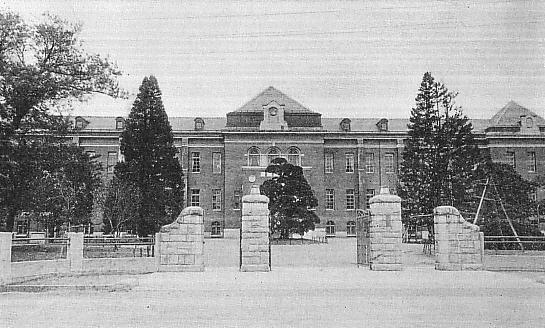 Miyagi Court of Appeals